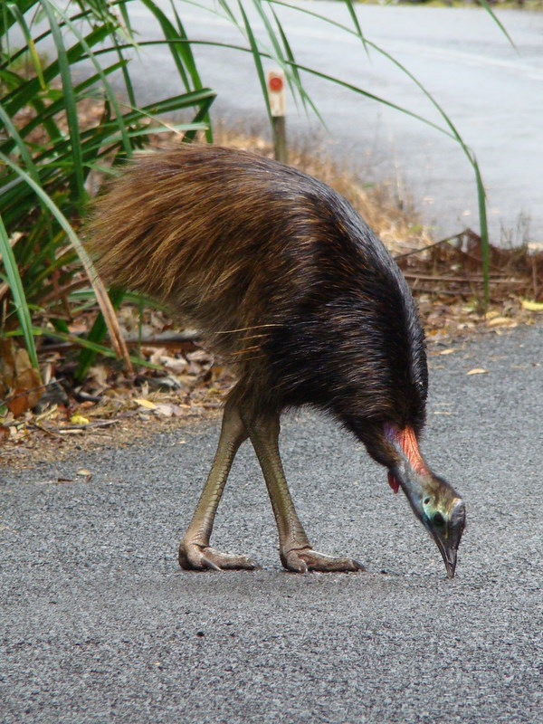 Juvenile Southern Cassowary walking across a road in Australia.